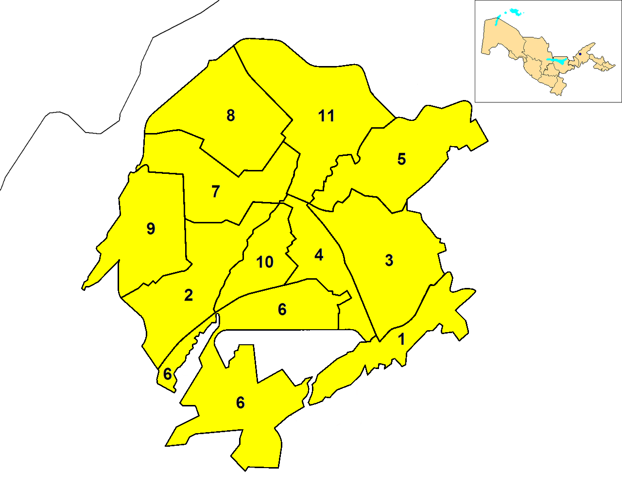 Map of the districts (tuman) of the province (viloyat) of Tashkent City in Uzbekistan. A map of Uzbekistan, highlighting Tashkent (blue dot), is shown in the upper right corner.